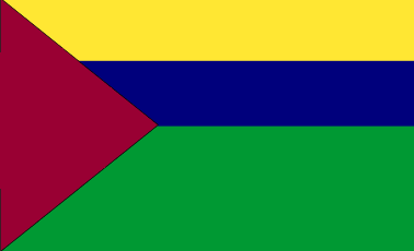 Flag of the Bolívar (Aragua) Municipality, replica of county webpage.